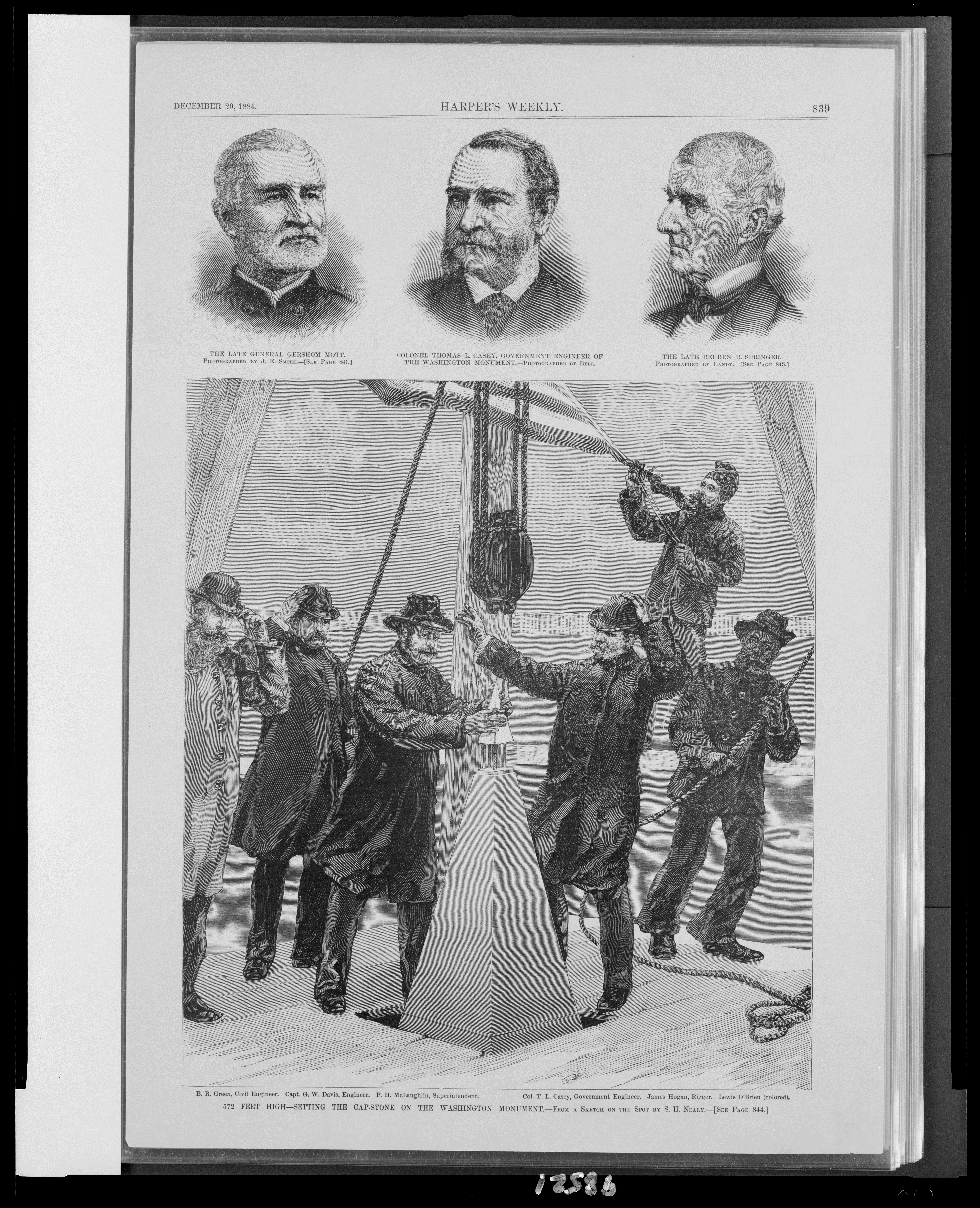 P. H. McLaughlin setting the capstone (aluminum apex) on the Washington Monument. Colonel Thomas Lincoln Casey has his hands up. An illustration from Harper's Weekly, December 20, 1884, page 839. Accompanying article on pages 844-5.